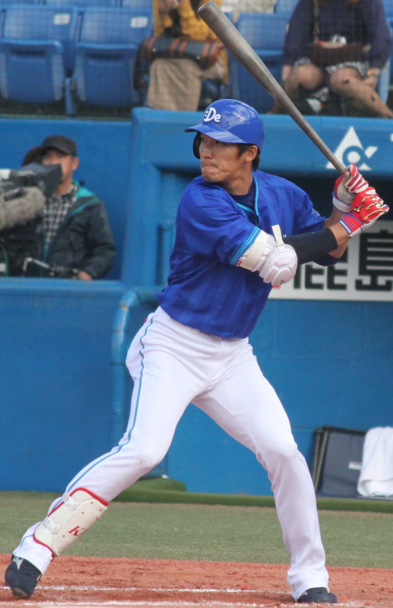 Takayuki Kajitani, infielder of the Yokohama DeNA BayStars, at Meiji Jingu Stadium.